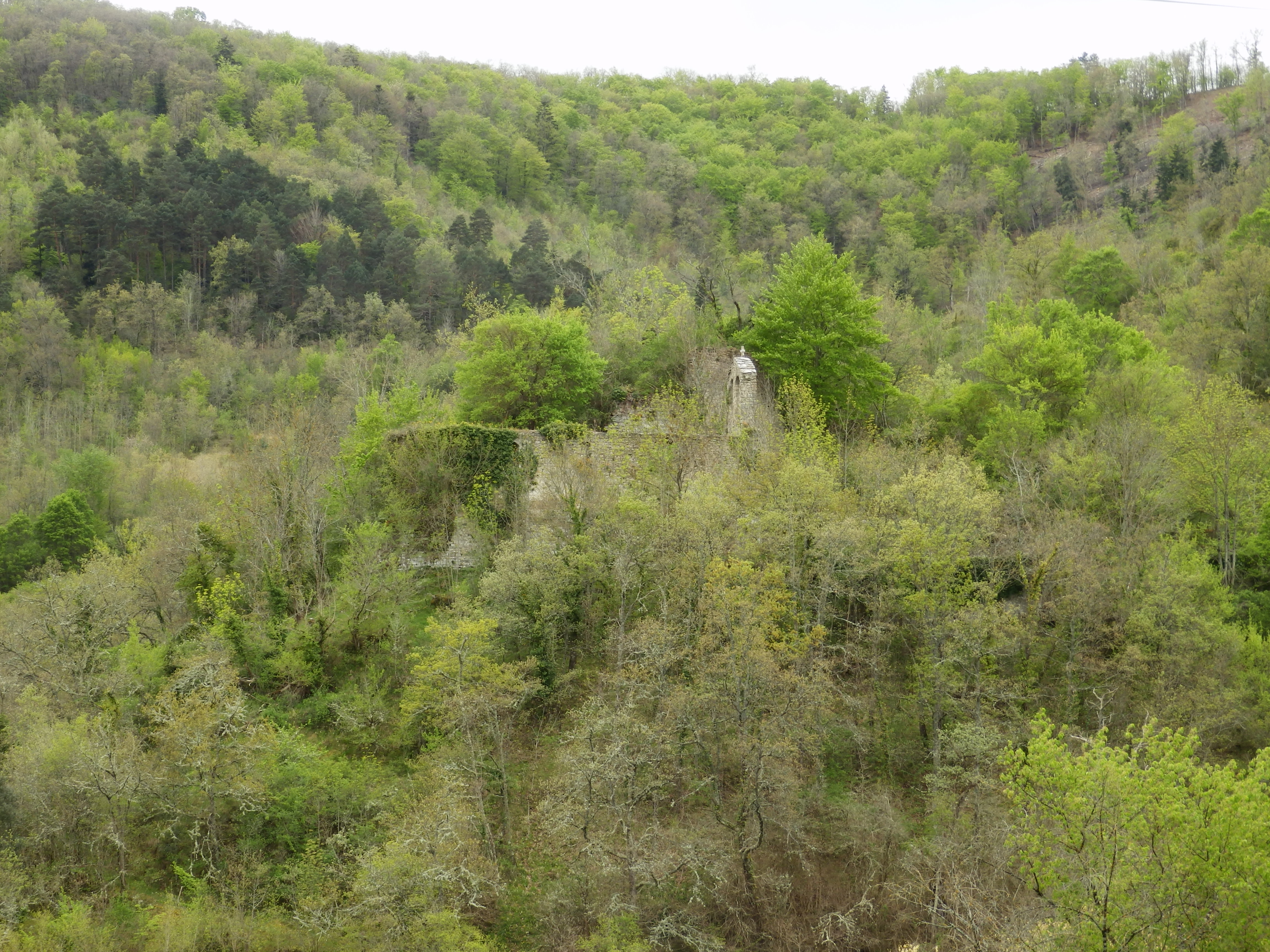 Ruins of St Nicholas Chapel in Tournebouix, Bourigeole, Aude, France